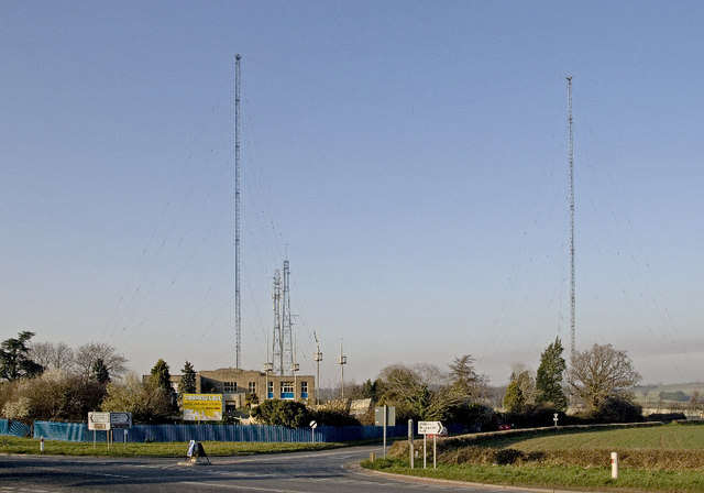 Washford Cross The huge medium wave aerials dwarf the former BBC transmitter station which opened in 1933 to provide the National SW Regional and Welsh Radio Services. Now privately operated, these aerials transmit on BBC, Virgin and Talk MW frequencies while the smaller arrays are a TV booster for Watchet and Washford and a mobile phone mast. The two smallest masts are the fore and mizzen of a wooden pirate ship in the children's playground.